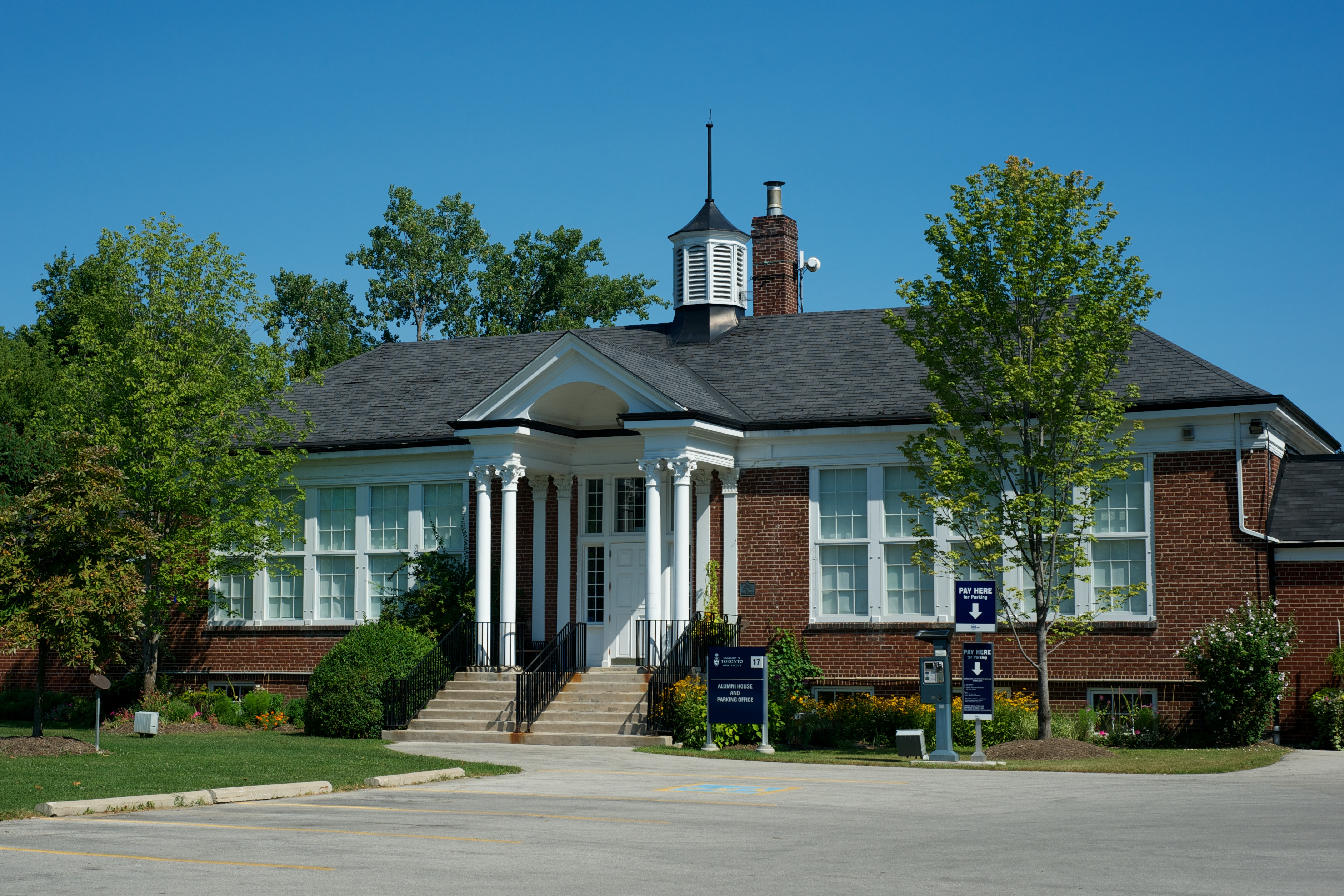 Old Erindale Public School, University of Toronto, Mississauga, Ontario